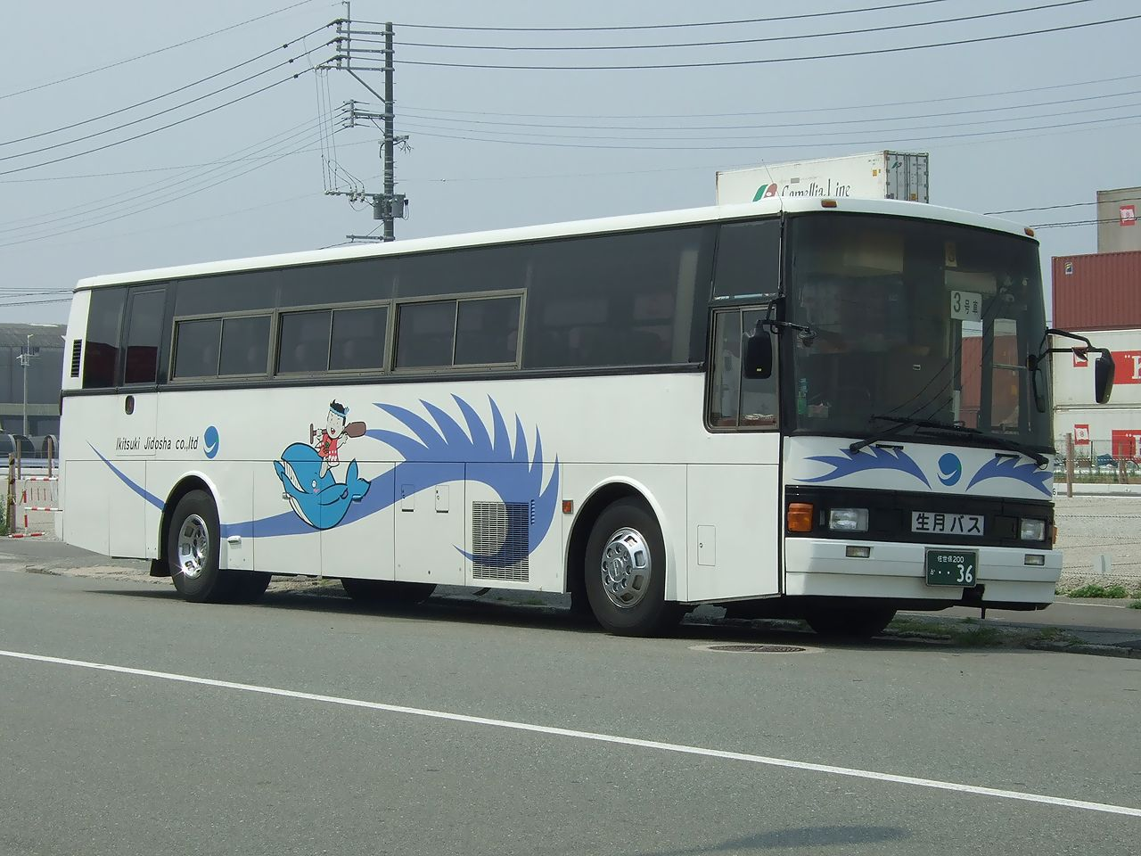 Company:Ikitsuki Bus Use:tour bus Car license:佐世保200 か・・36 Chassis manufacturer:Hino Motors Coachbuilder:Fuji Heavy Industries Location:at Hakata Port, Fukuoka City, Fukuoka, Japan.